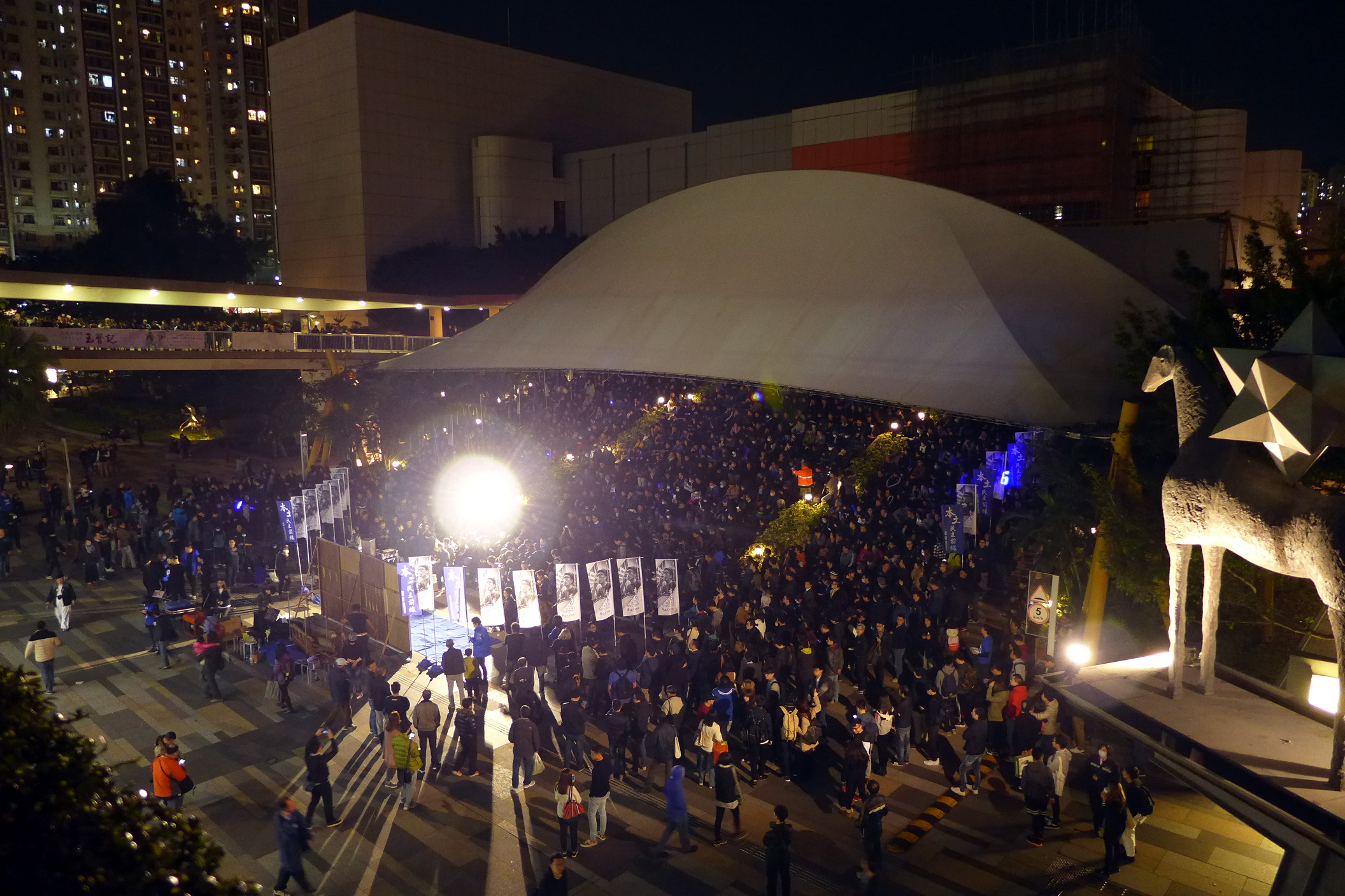 Election promotion for Edward Leung outside Sha Tin Town Hall